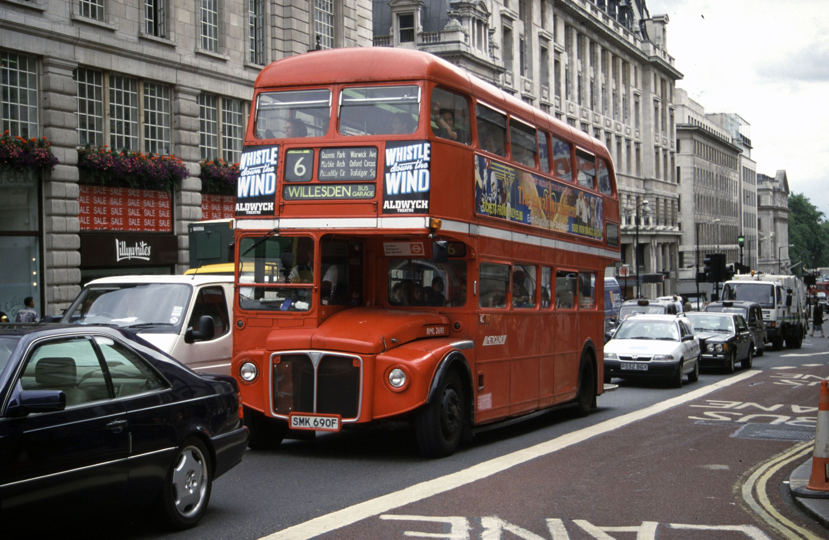 2690-SMK690F 0898 CPS